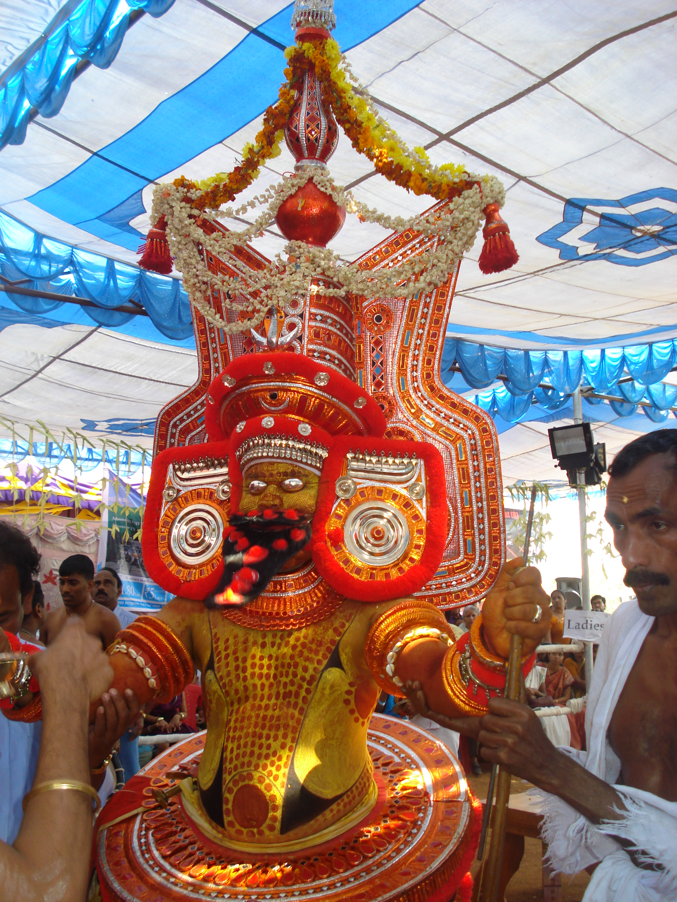 Thiruvappana closeup